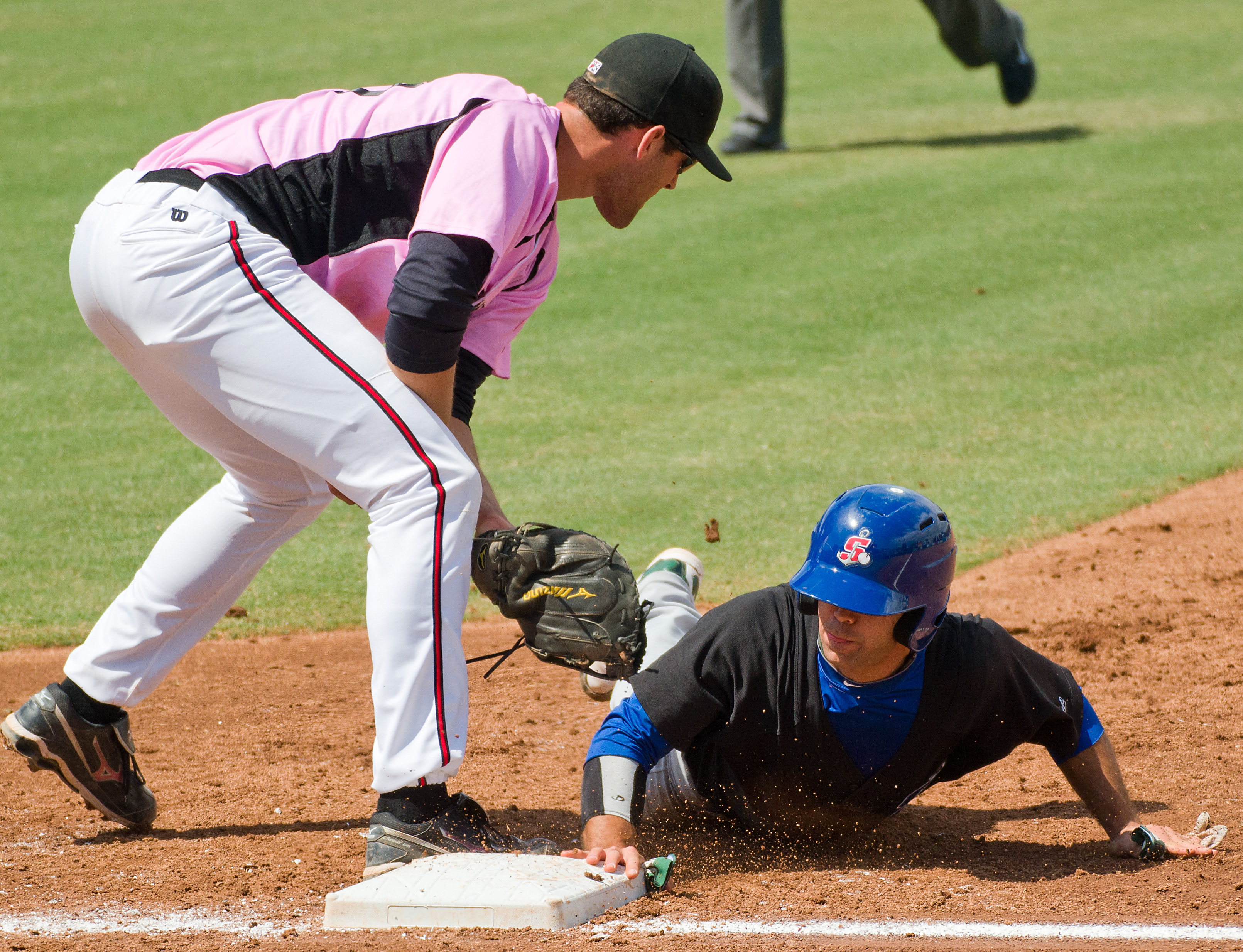 Nate Freiman (left) on defense playing first base